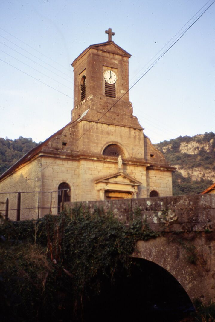 Church of Gizia